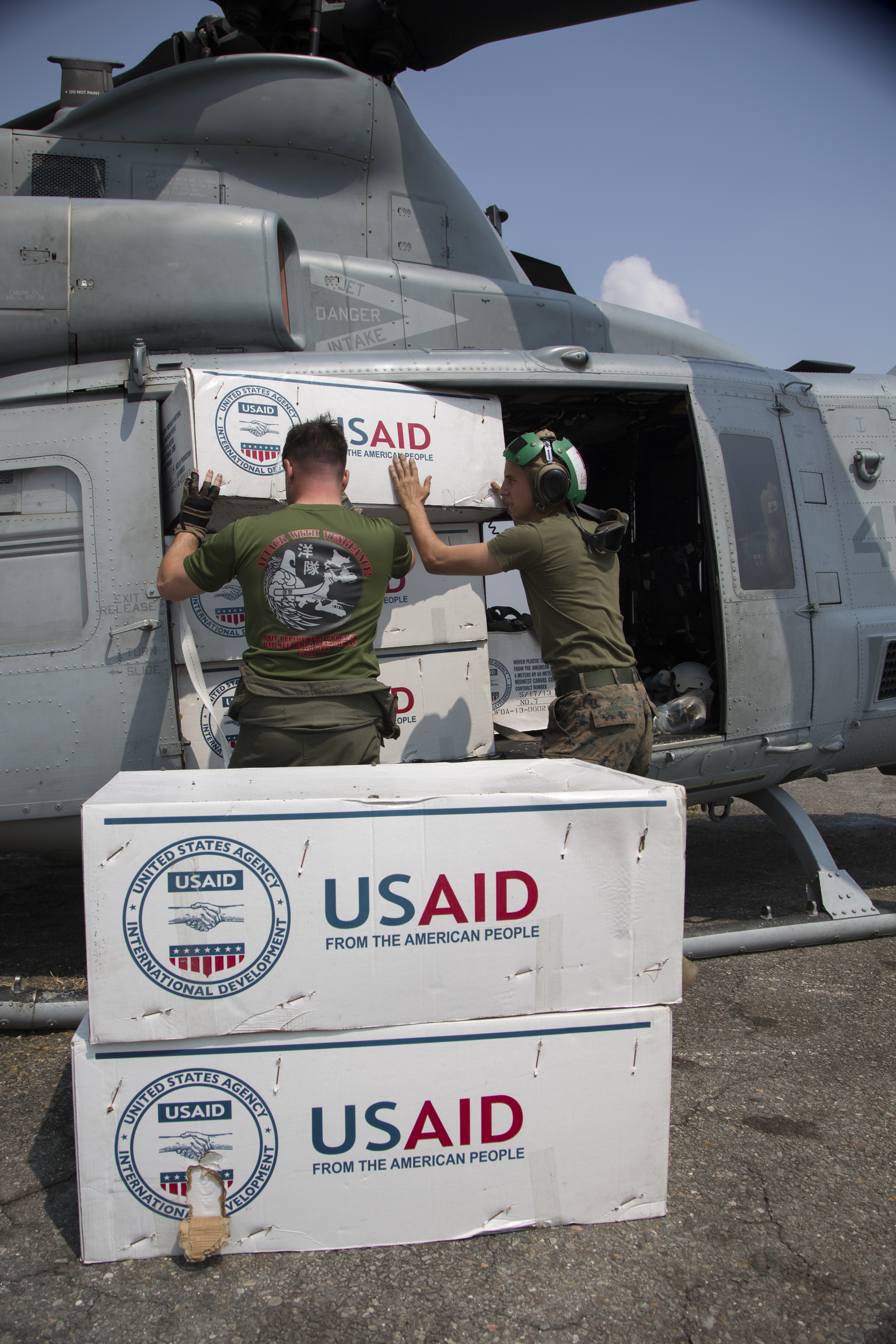 U.S. service members with Joint Task Force 505 load relief supplies from the United States Agency for International Development into a U.S. Marine Corps UH-1Y Venom at Tribhuvan International Airport, Kathmandu, Nepal, May 19 during Operation Sahayogi Haat. JTF 505 along with other multinational forces and humanitarian relief organizations are currently in Nepal providing aid after a 7.8 magnitude earthquake struck the country, April 25 and a 7.3 earthquake on May 12. At Nepal’s request the U.S. government ordered JTF 505 to provide unique capabilities to assist Nepal. (U.S. Marine Corps photo by MCIPAC Combat Camera Lance Cpl. Hernan Vidana/Released)